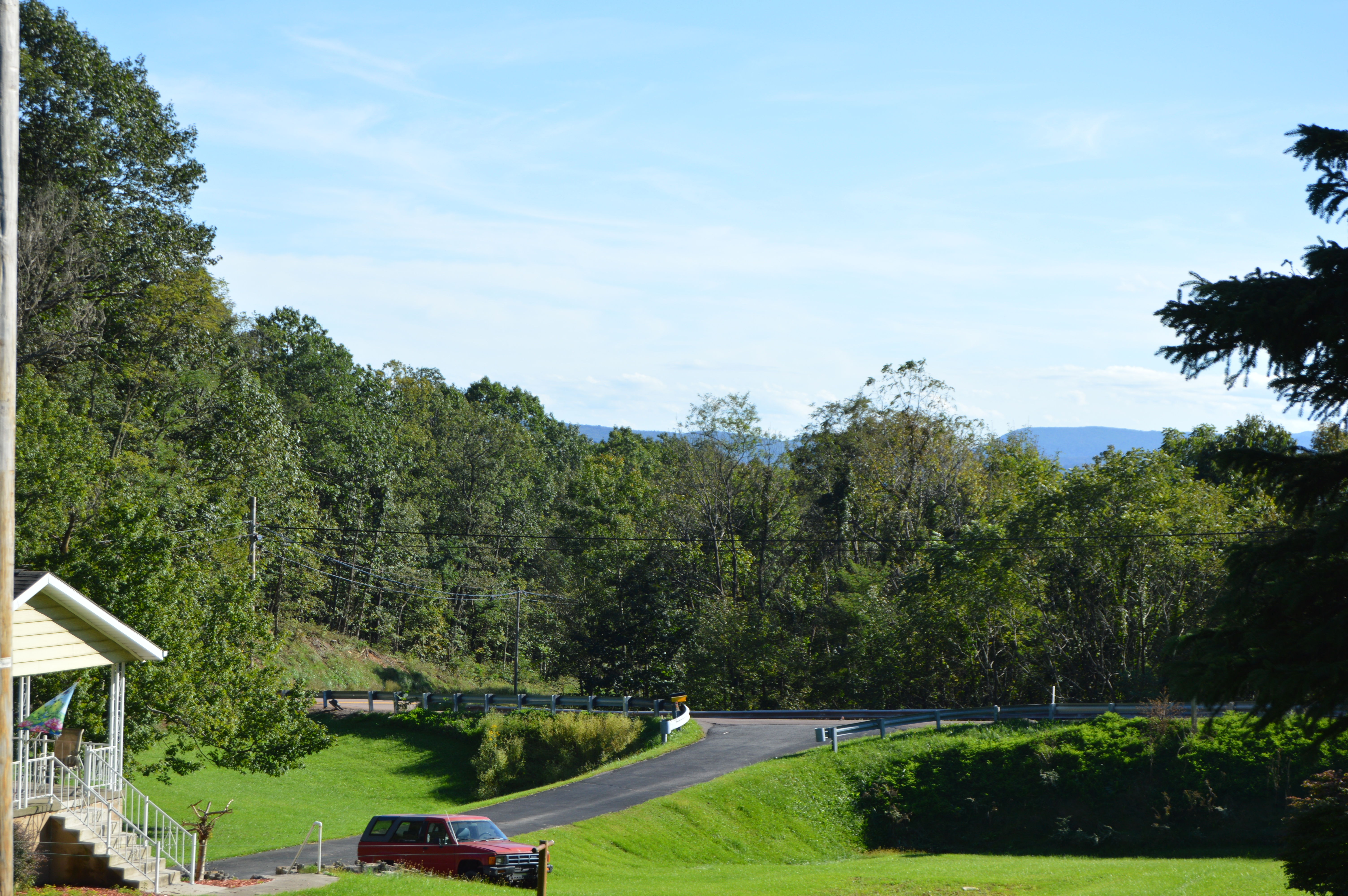 Woodland on the southeastern slope of Savage Mountain, along Pennsylvania Route 160, in Southampton Township, Somerset County, Pennsylvania, United States.